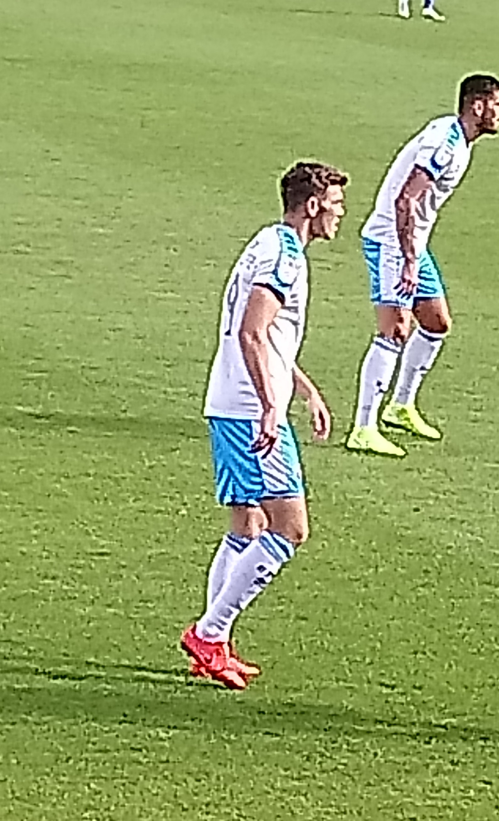 Jordan Tunnicliffe, an English professional footballer born in 1993, playing for English football club Crawley Town on 7 September 2019